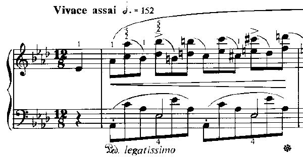 Excerpt form the beginning of the Étude Op. 10 No. 10 by Fryderyk Chopin.